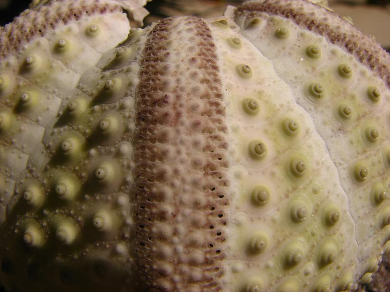 Echinothrix (sea urchin) test in Mahe, Seychelles